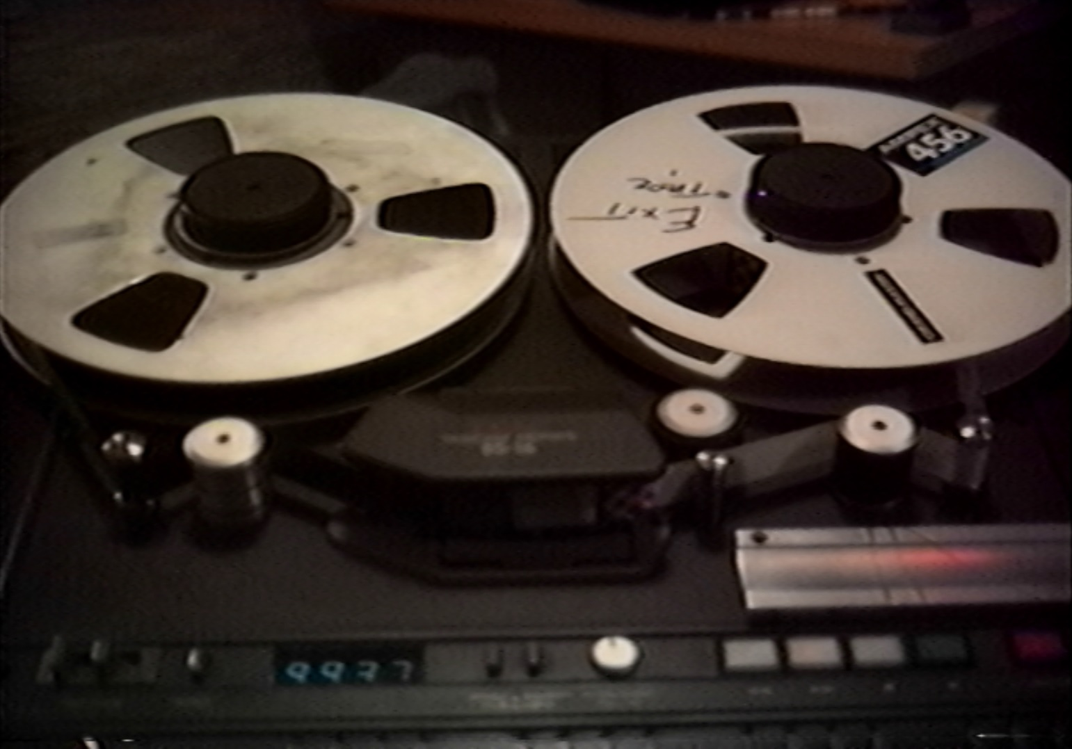 The Tascam 1" 16 track at Casbah Studio, during a 1990 recording session by the band EXIT.